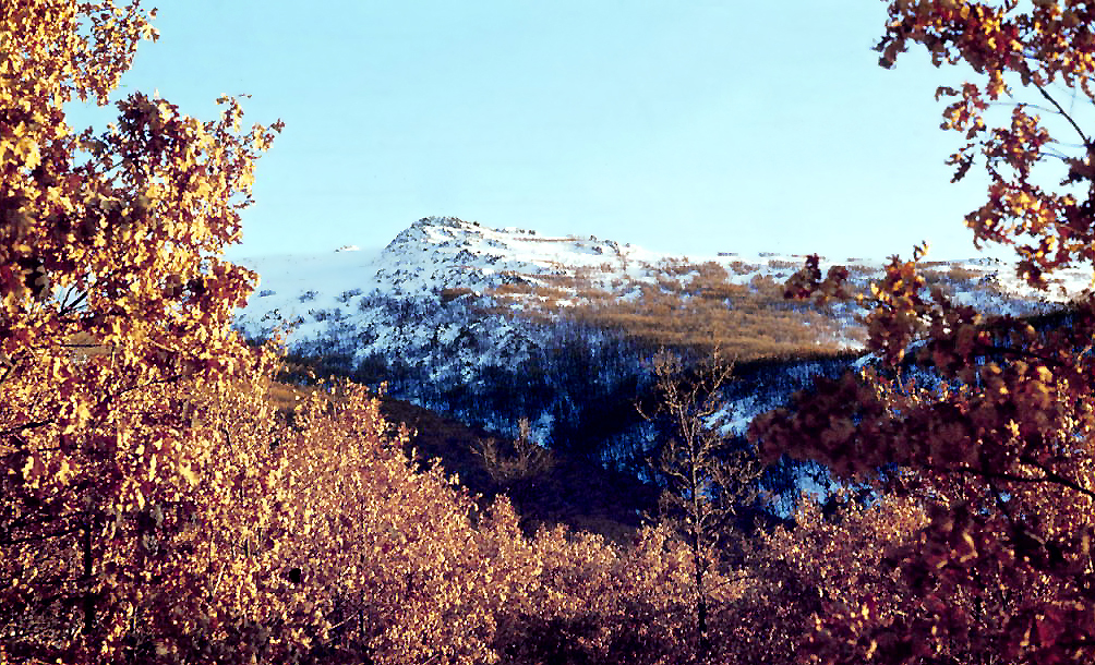 Pyrenean oaks [Quercus pyrenaica] in the north face of Ayllón Range. Segovia, Castile and León, Spain